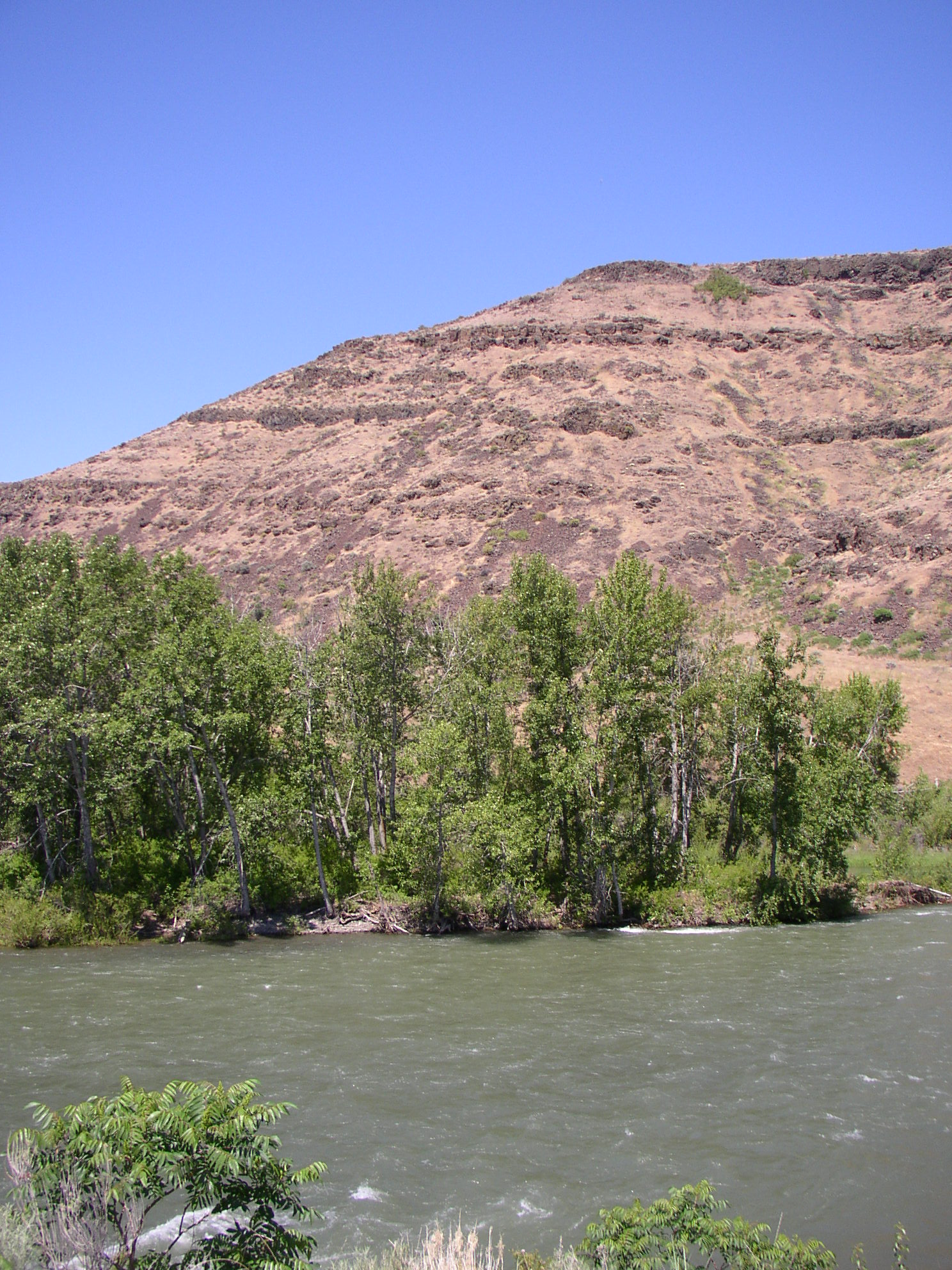 The Naches River is a tributary of the Yakima River in central Washington in the United States. Beginning as the Little Naches River, it is about 75 miles (121 km) long.[1] After the confluence of the Little Naches and Bumping River the name becomes simply the Naches River. The Naches and its tributaries drain a portion of the eastern side of the Cascade Range, east of Mount Rainier and northeast of Mount Adams. In terms of discharge, the Naches River is the largest tributary of the Yakima River. In its upper reaches, the Naches River basin includes rugged mountains and wildernesses. The lower Naches River and its tributary the Tieton River flow through valleys with towns and irrigated orchards northwest of Yakima, where the Naches River joins the Yakima River. Historically, the river served as an important travel corridor between the east and west sides of the Cascades, via Naches Pass, used by both Native Americans and settlers.